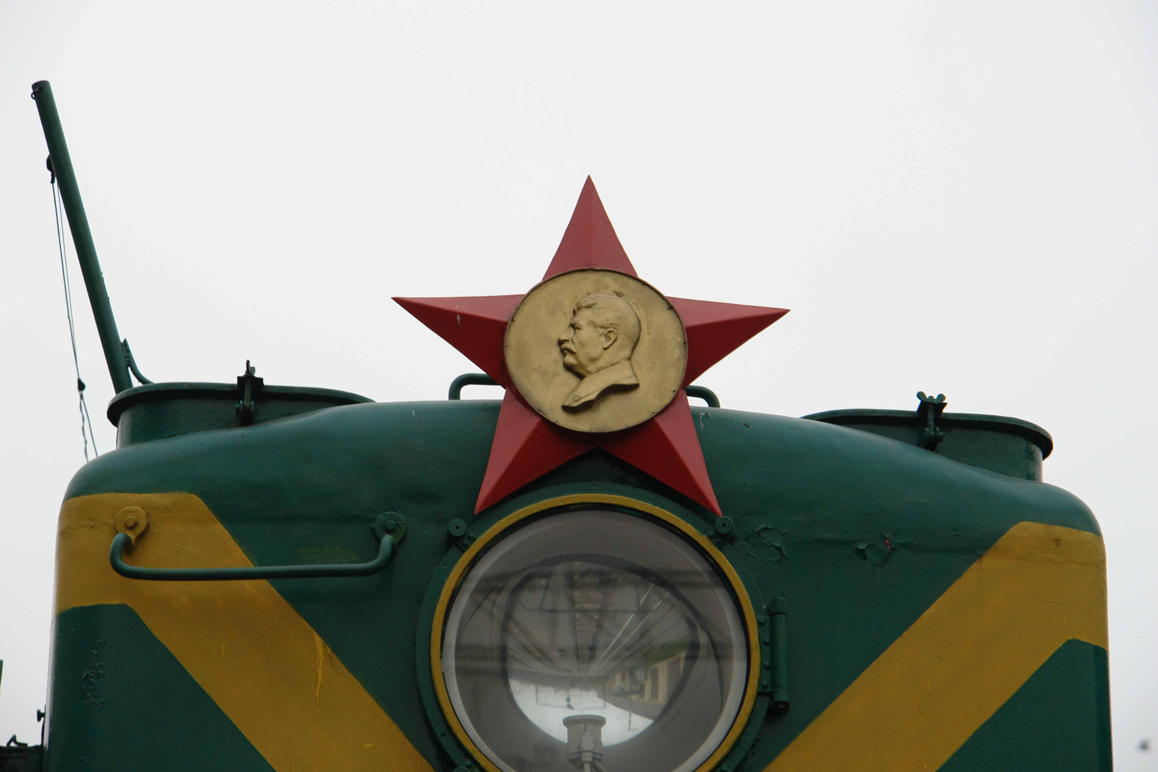 Freight and passenger diesel locomotive TE1-20-135